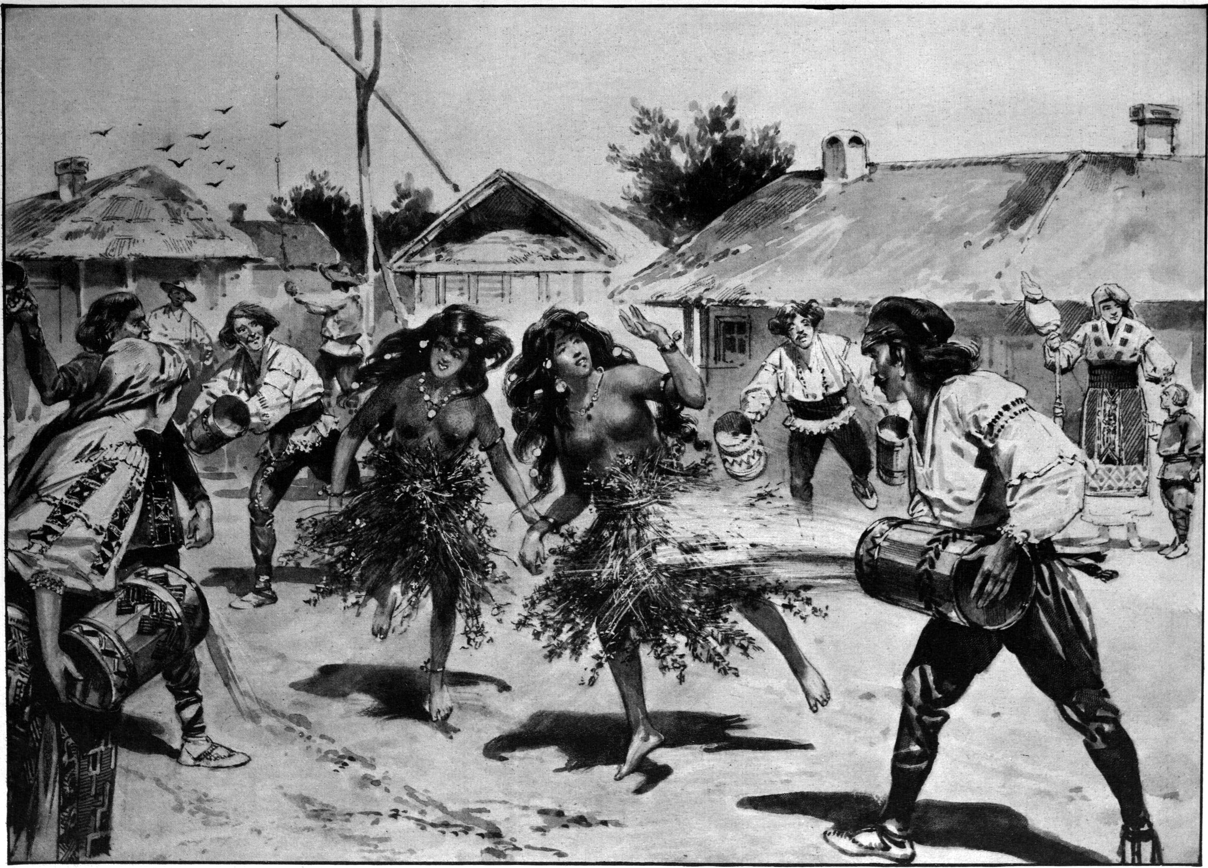 Rain-Making in Roumania: A Gypsy Incantation to Ensure the Maize CropA survival of Paganism in Eastern Europe: the rain-makers running through a Roumanian village in time of drought